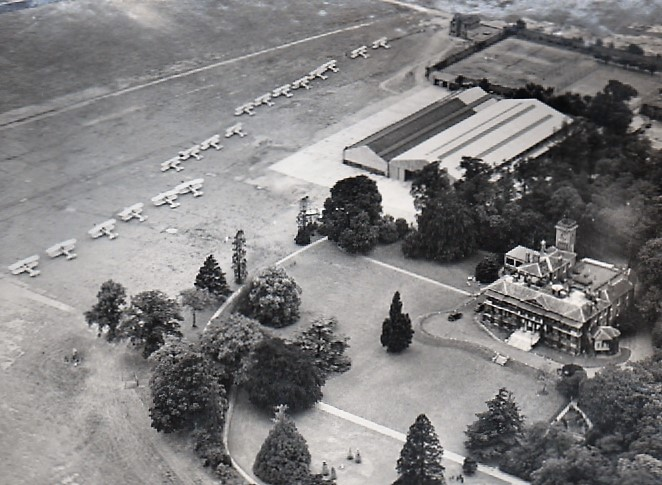 No 5 E&RFTS new hanger, apron and machine gun range, 1938, beside Hanworth House